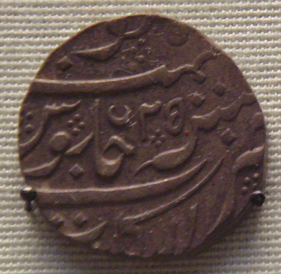 French_issued_rupee_in_the_name_of_Mohammed_Sha_1719_1758_for_Northern_India_trade_cast_in_Pondicherry.